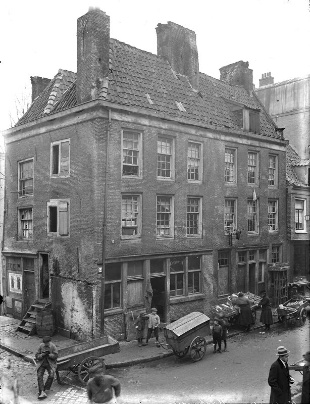 Slum in Amsterdam, Markensteeg, Netherlands, in 1913